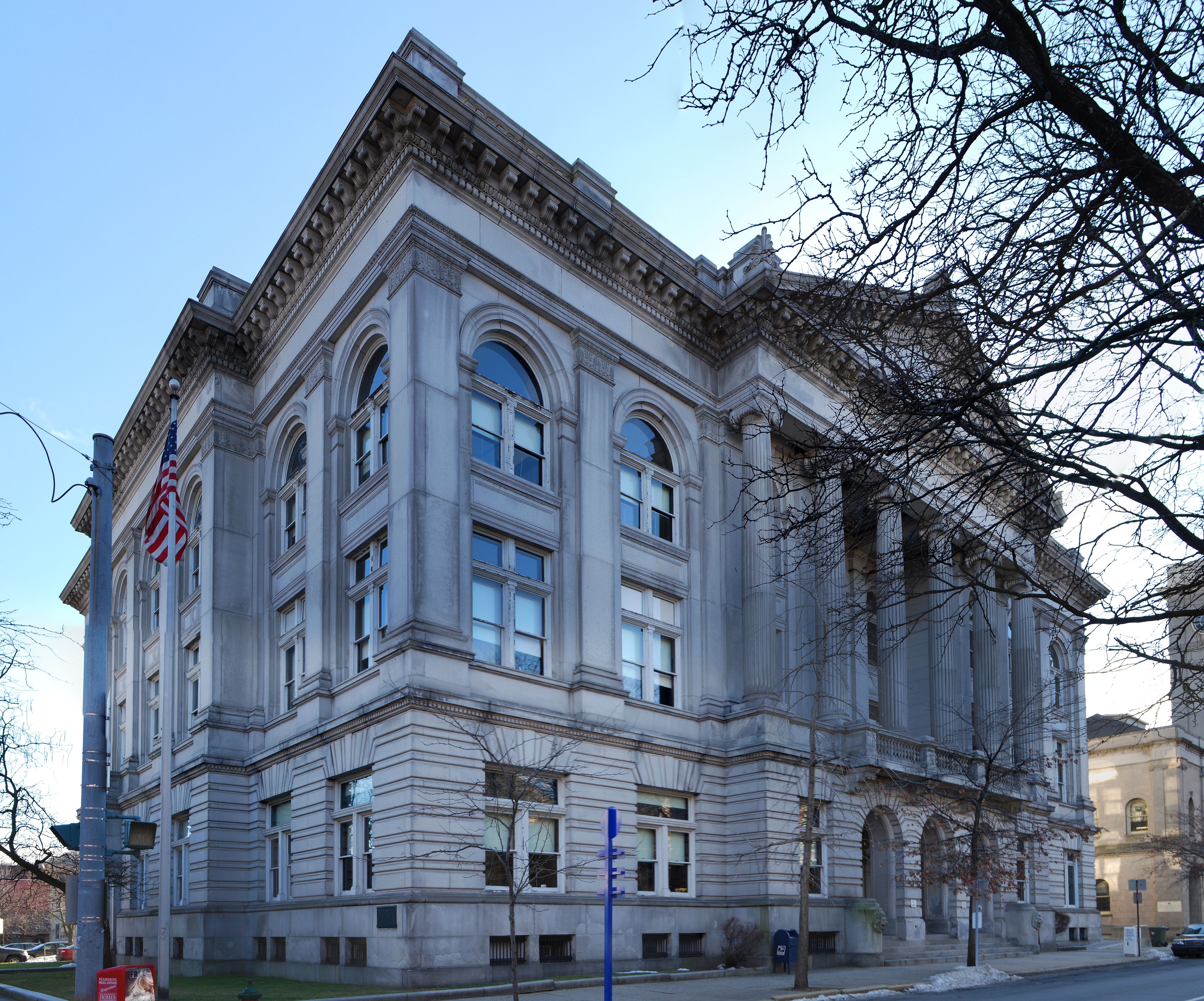 County Courthouse of Rensselaer County, New York on the southeast corner of Congress and 2nd Streets in Troy, New York.